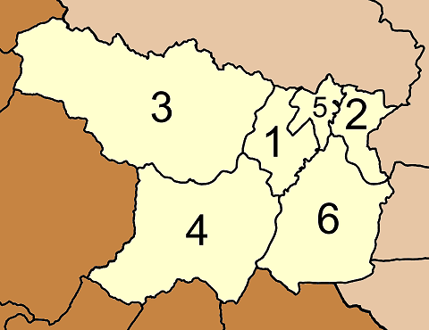 Map of Phanom district, Surat Thani province, Thailand, with the communes (tambon) numbered. Phanom (พนม) Ton Yuan (ต้นยวน) Khlong Sok (คลองศก) Phlu Thuean (พลูเถื่อน) Phang Kan (พังกาญจน์) Khlong Cha Un (คลองชะอุ่น)